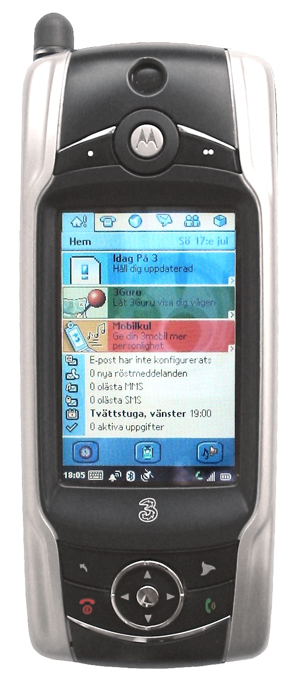 Motorola A925 front side. Image taken by myself.